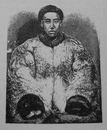 A sketch of typical Manza (Chinaman of Ussurian Region of Russia) in winter coat